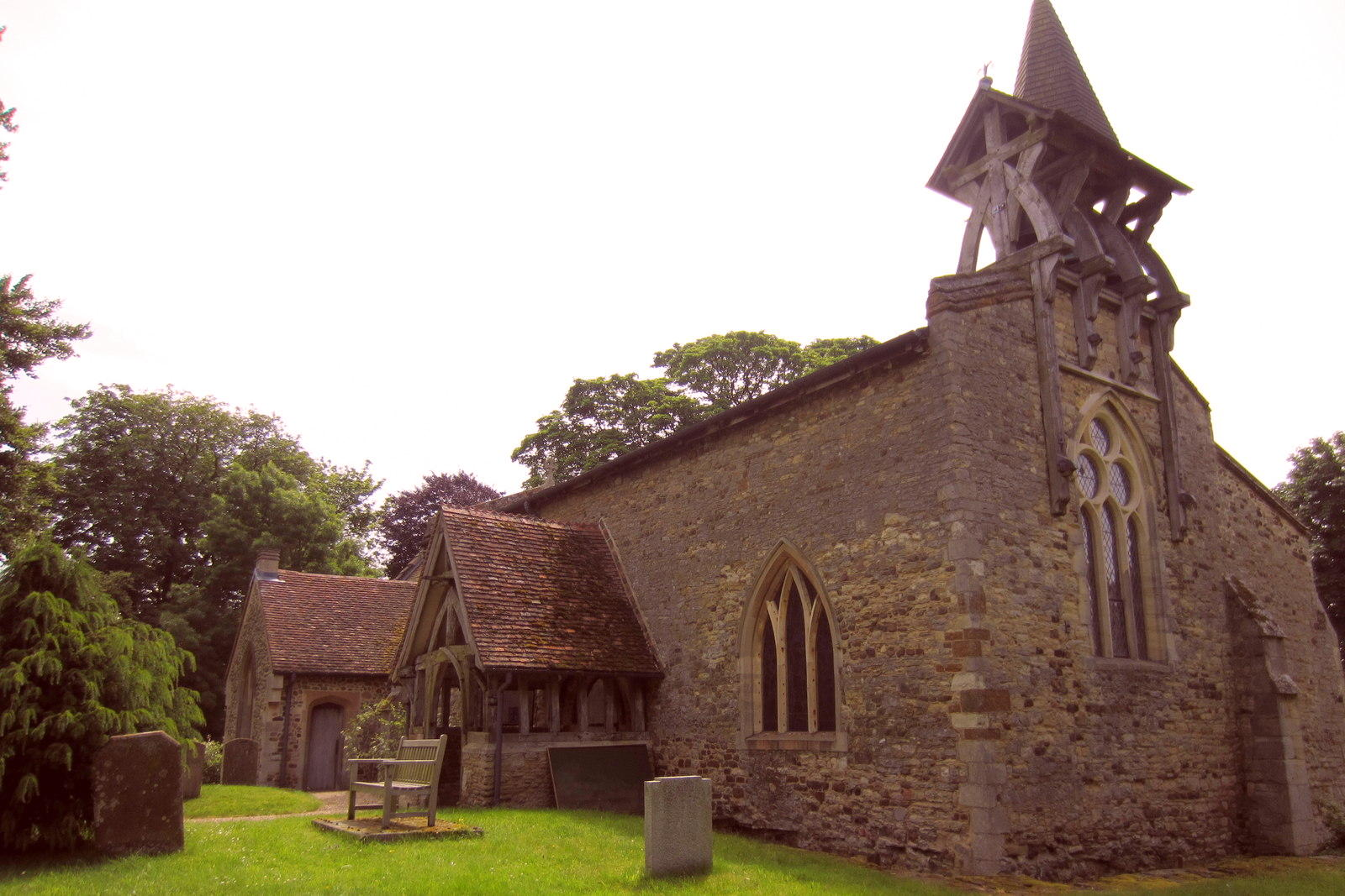 St Mary's parish church, Salford, Bedfordshire, seen from the northwest